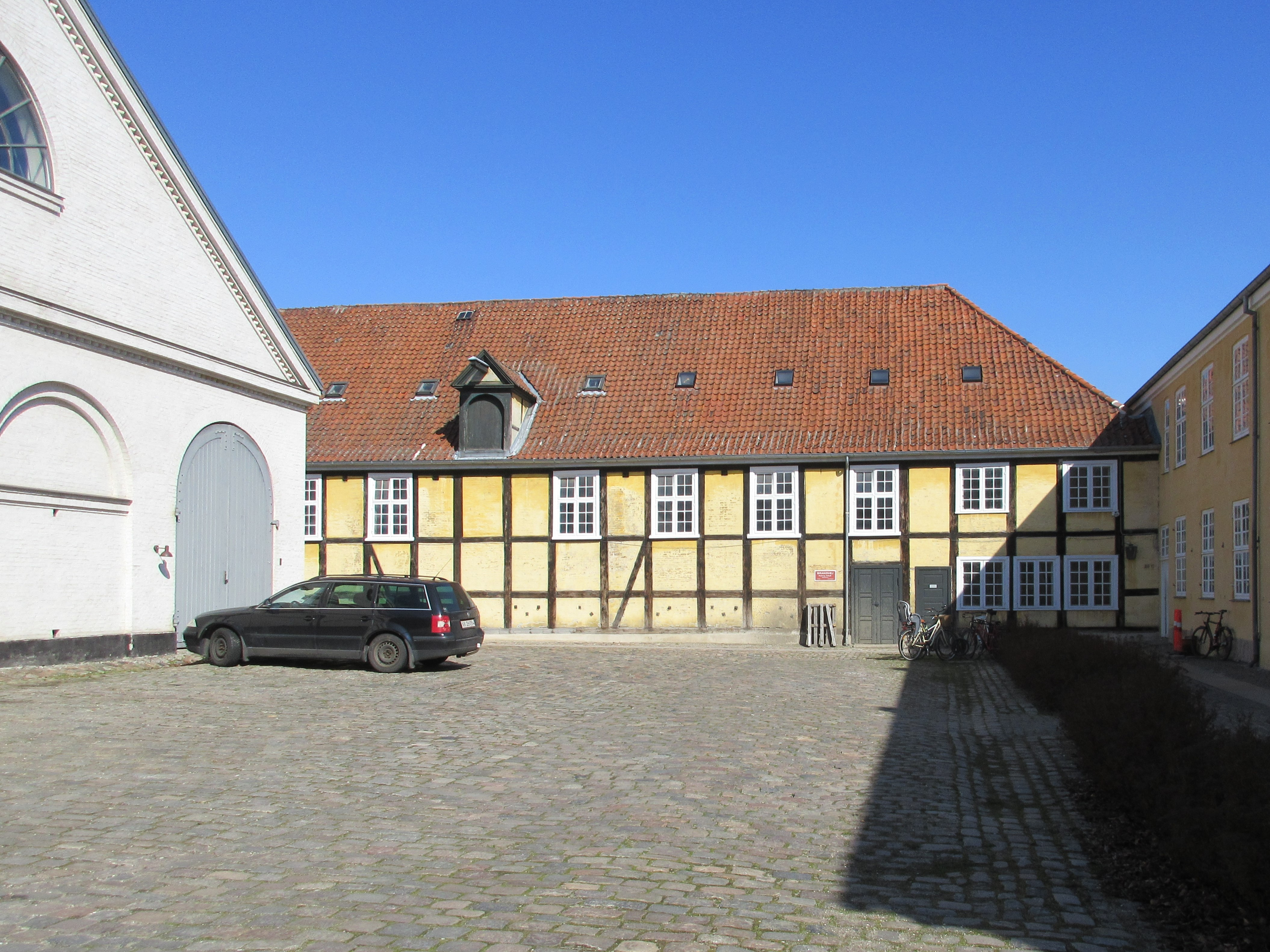 The eastern end og the north wing of Lakajgården in Frederiksberg, Denmark